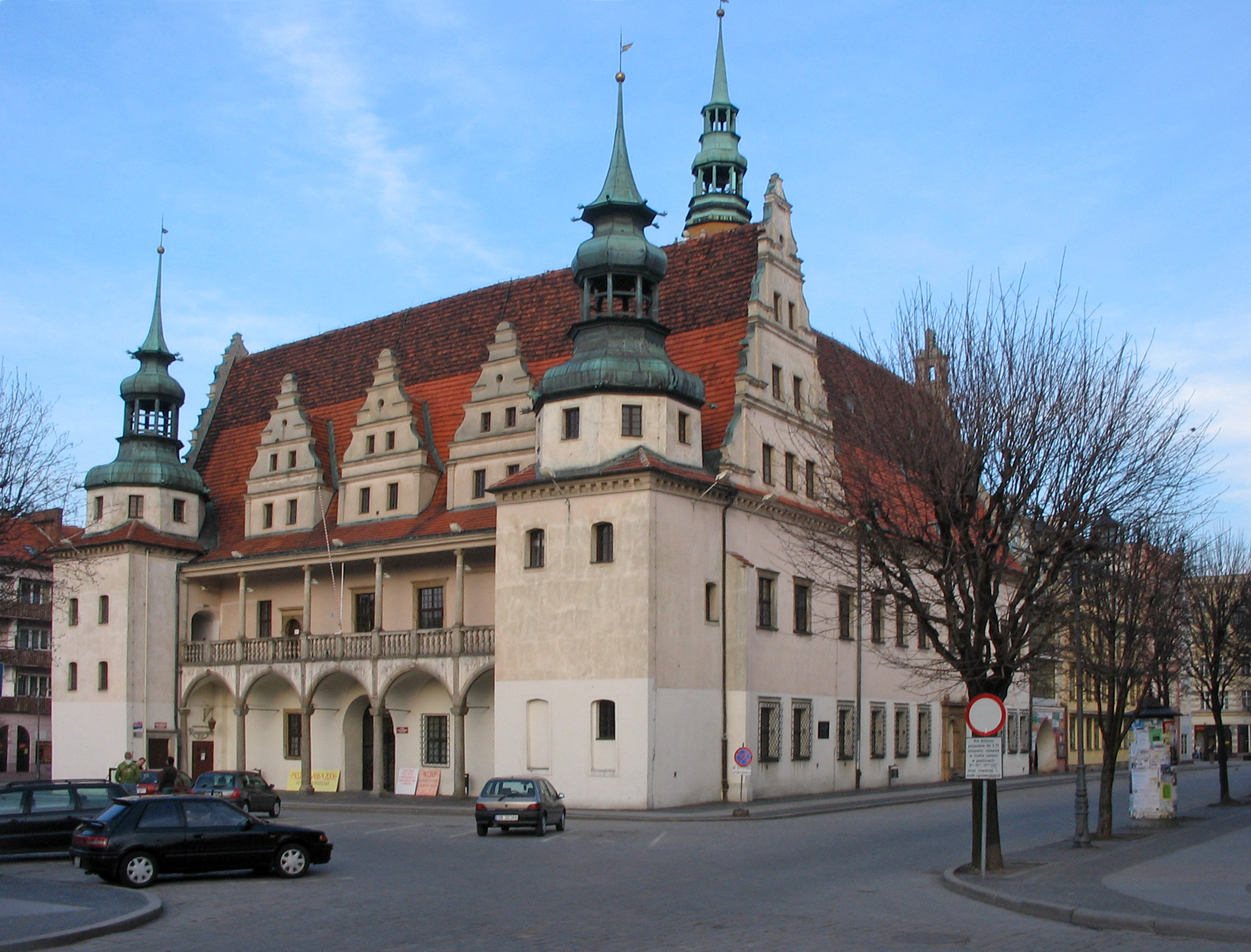 Town hall in Brzeg